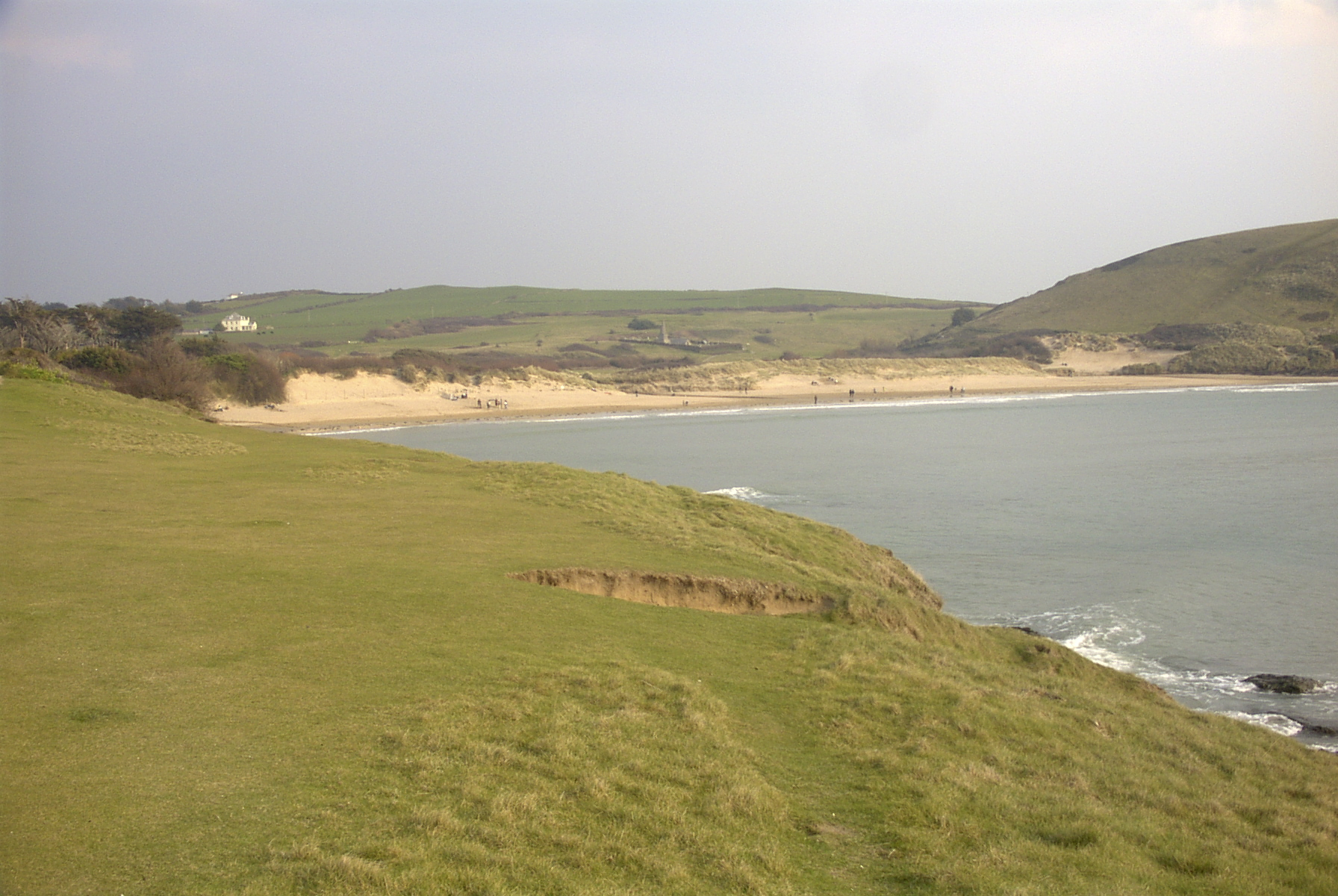 A photo of Daymer Bay